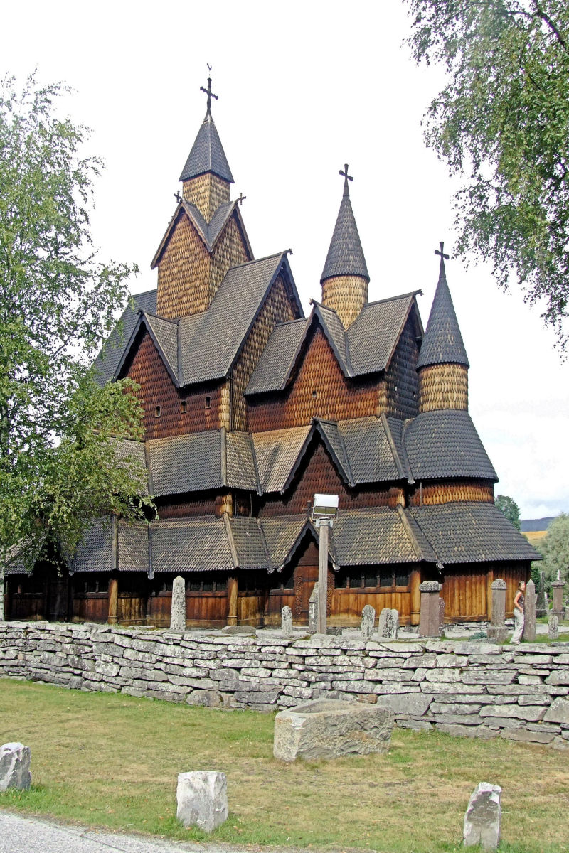 Heddal stave church, Norways largest stave church located at Heddal in Notodden municipally. Photo taken by Jørgen Larsen, 2006-08-15.